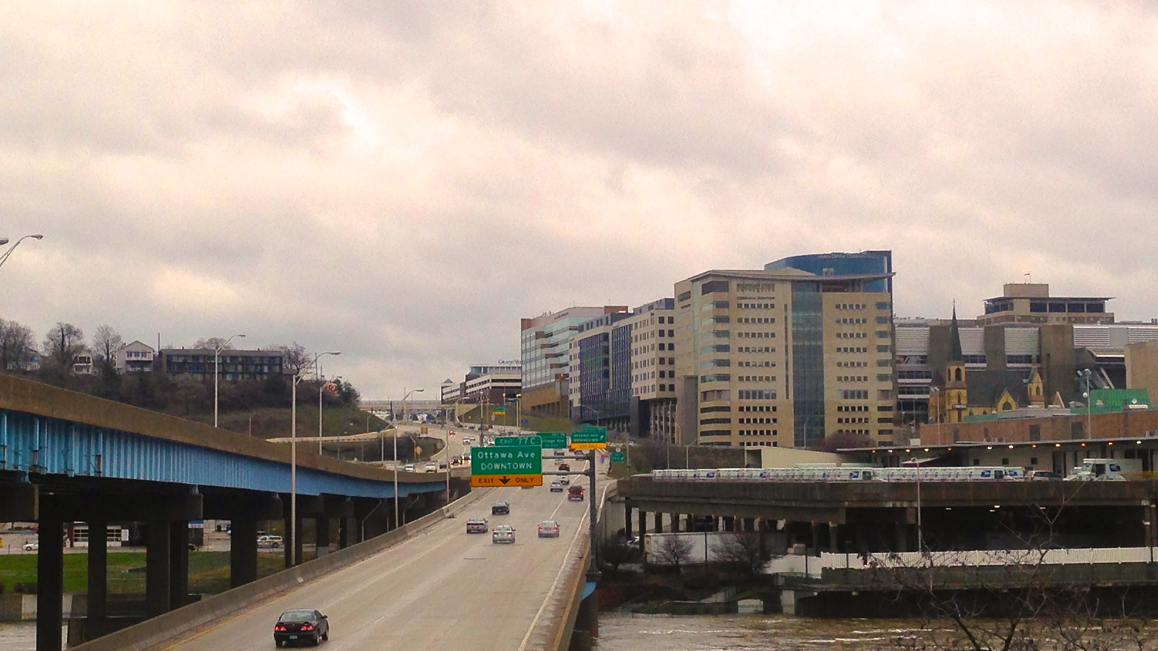 Grand Rapids Medical Mile seen from over eastbound Interstate 196